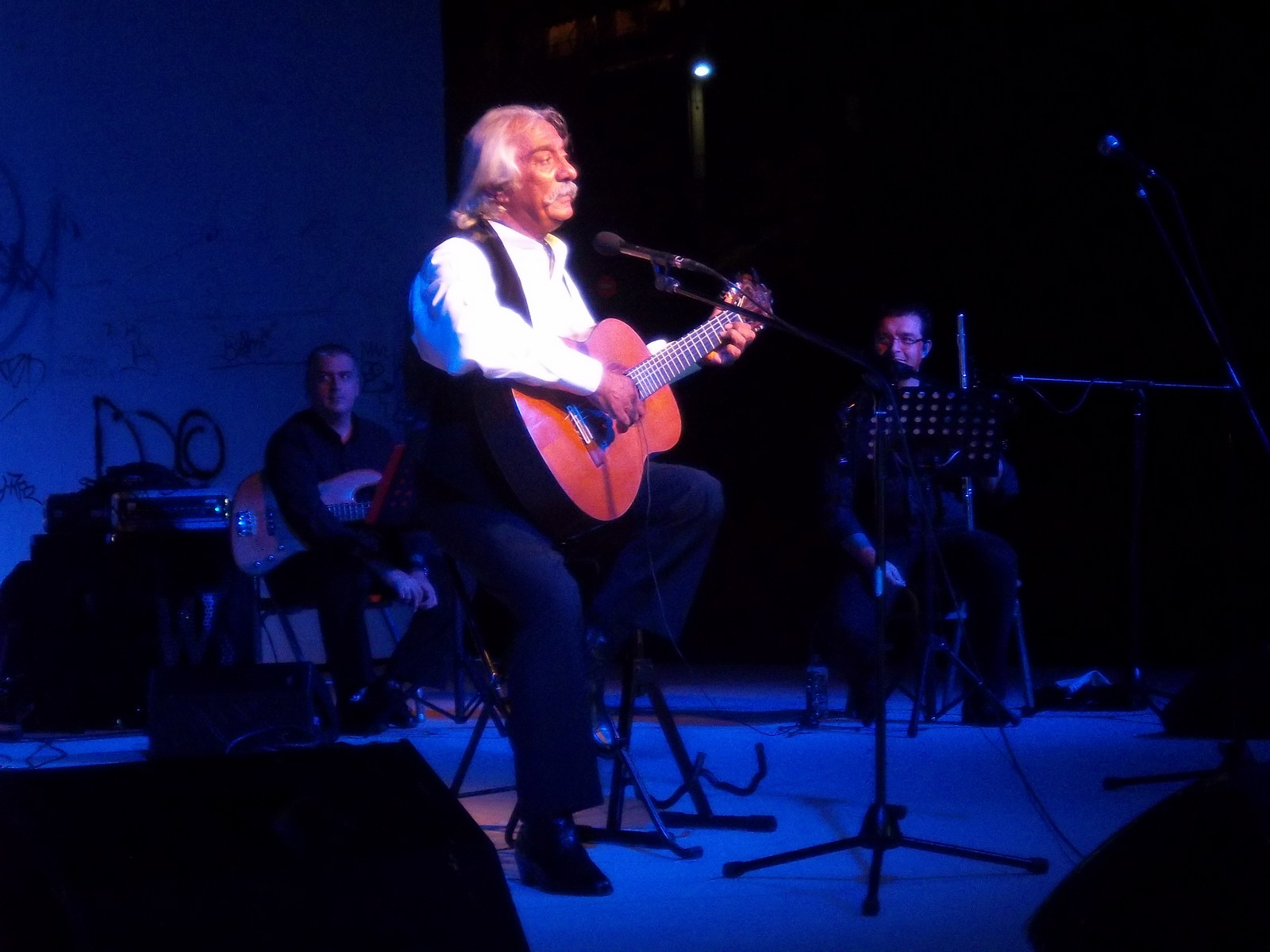 Kostas Hatzis live in 2010